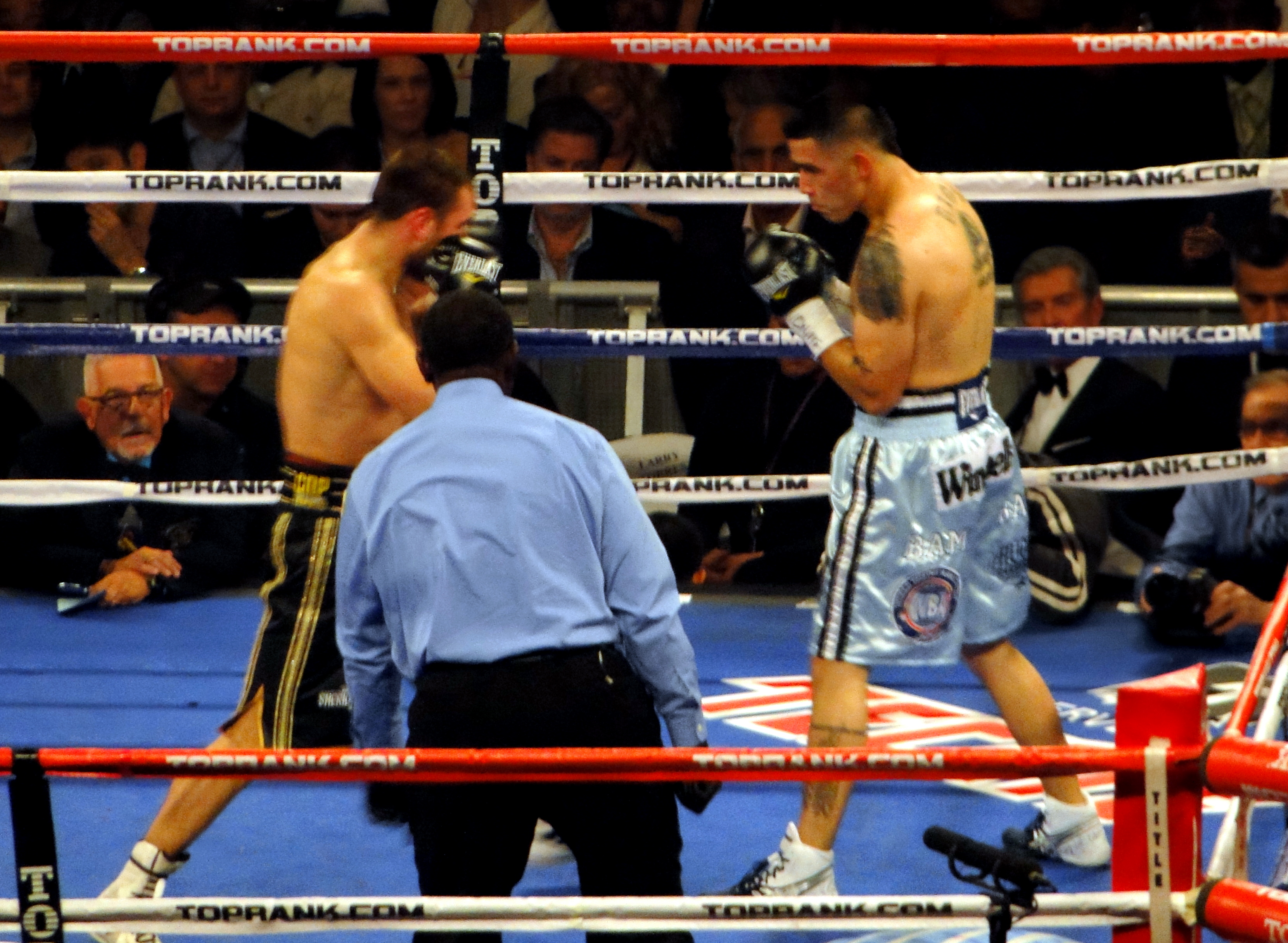 Brandon Rios (on the right) vs. John Murray at the Madison Square Garden on December 3, 2011.